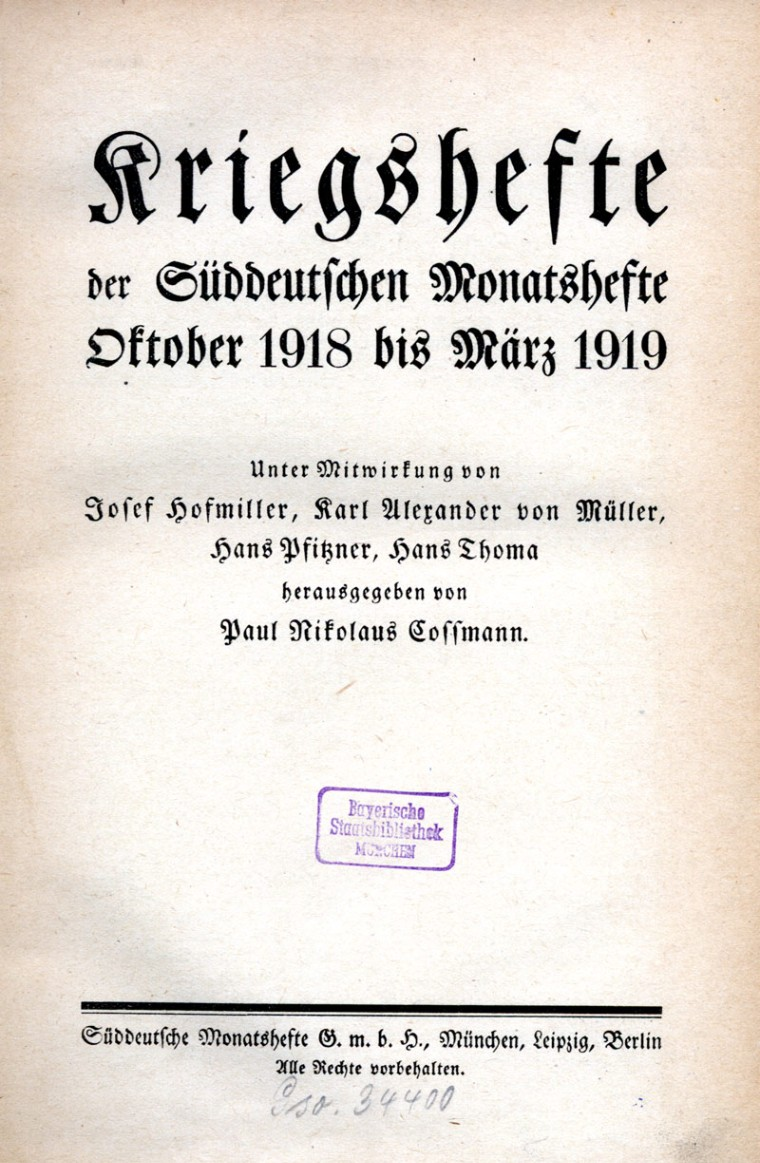 Cover of Süddeutsche Monatshefte (October 1918-March 1919)